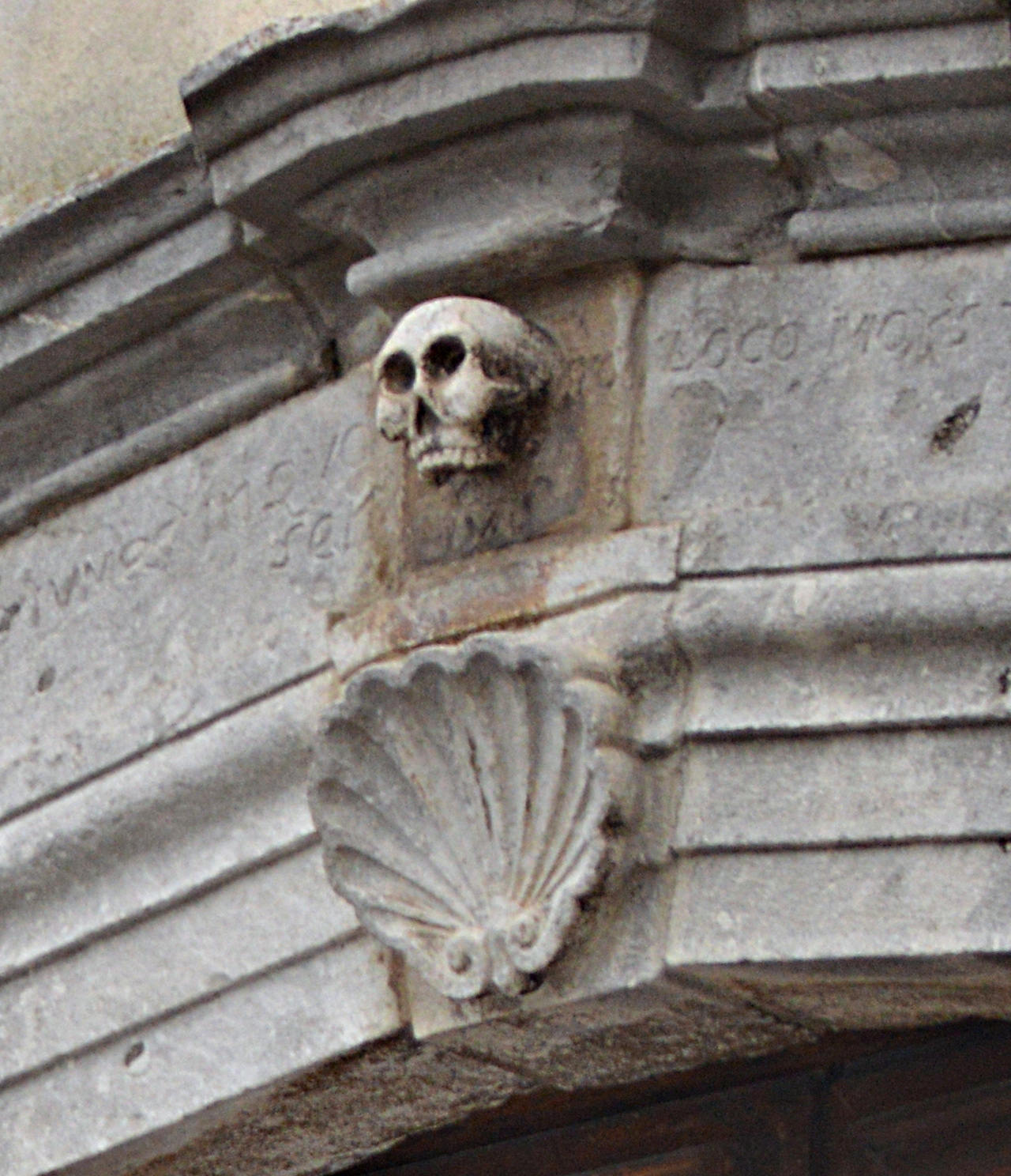 particular of the Church named Purgatorio situated in Colletorto, Molise-Italy, the stone skull (stone sculpture) is situated on the principal door of church